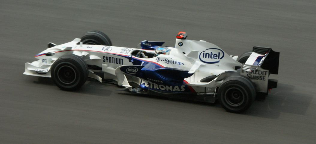 Nick Heidfeld driving for BMW Sauber at the 2008 Malaysian Grand Prix.